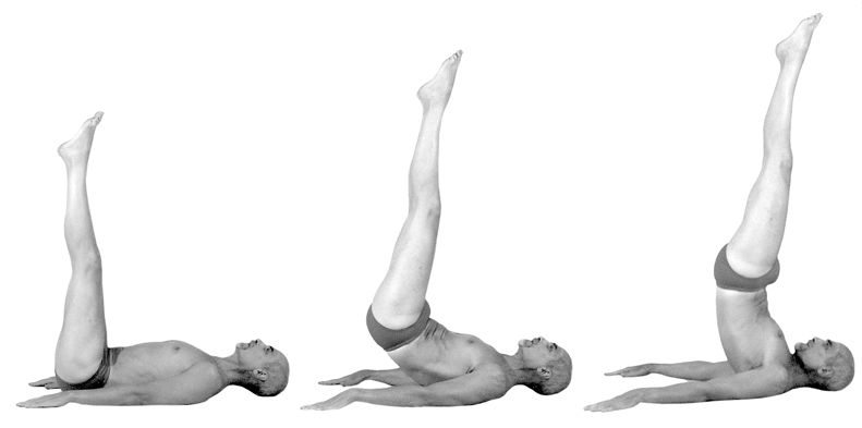 How to do inversions on Yôga